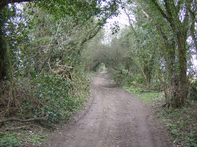 Down Lane A byway, part of the Oxdrove route. A well-surfaced track for the most part here running north-east between two large arable fields.